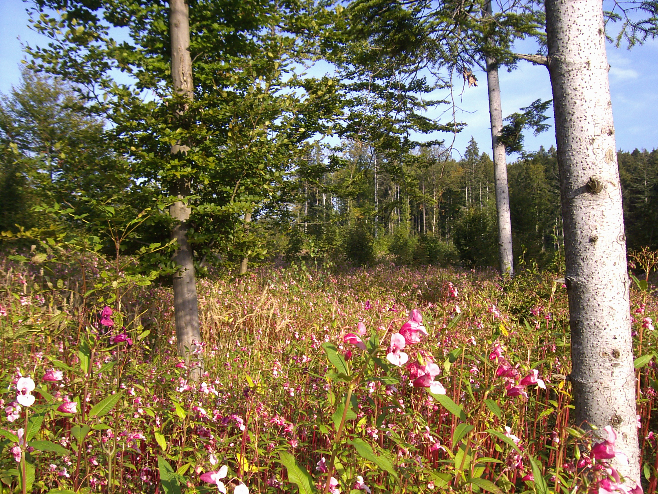 The invasive plant "Himalayan Balsam" grows in a forest close to Gmund am Tegernsee (Germany).